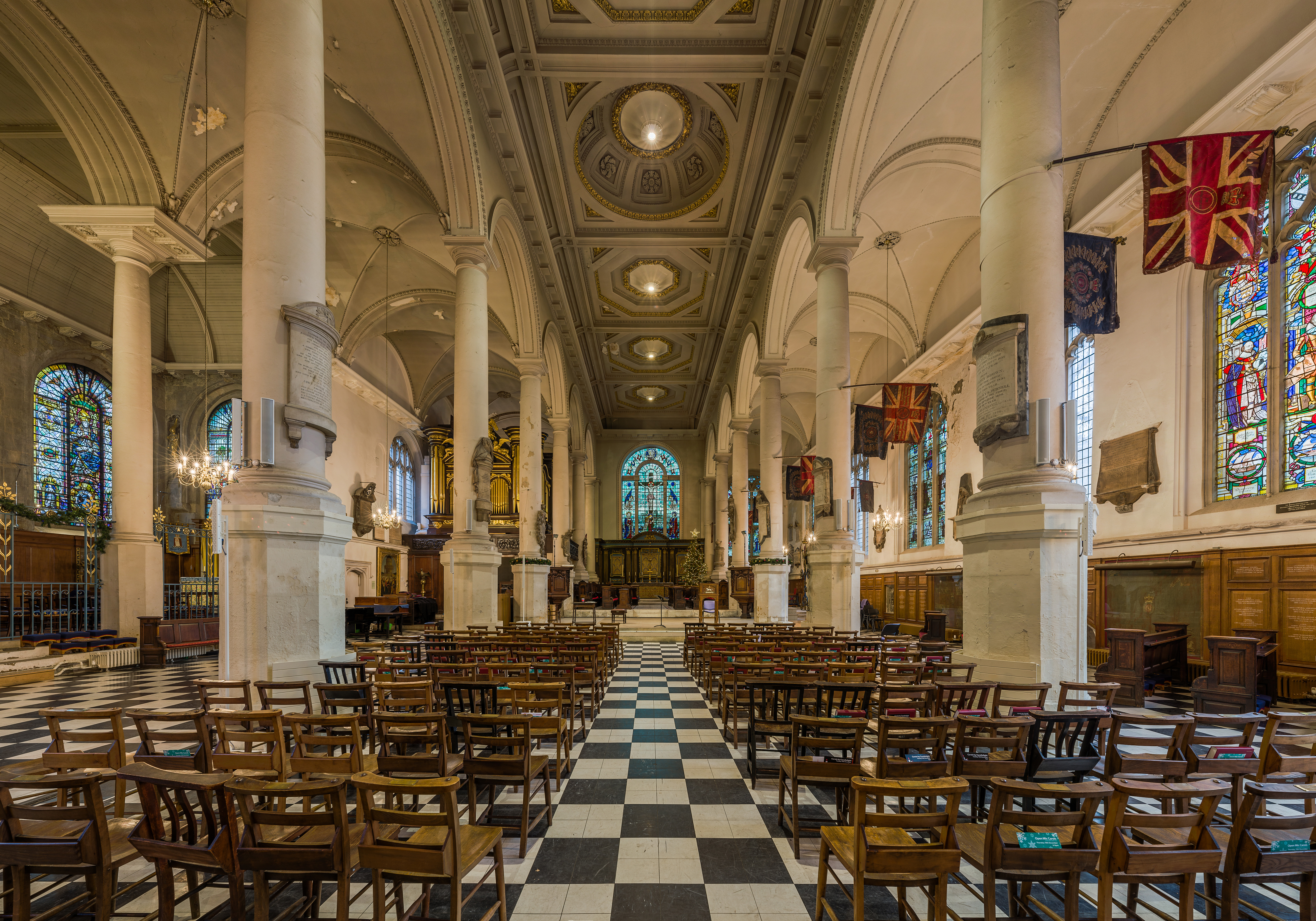 The interior of St Sepulchre-without-Newgate viewed looking east down the nave in London, England.